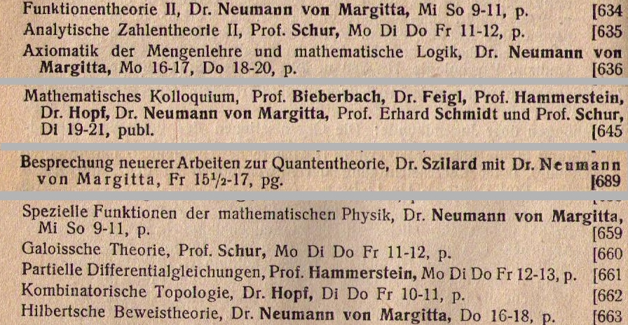 Scan of lectures of von Neumann in course catalogues Berlin 1928/29 (Friedrich-Wilhelms-Universität)